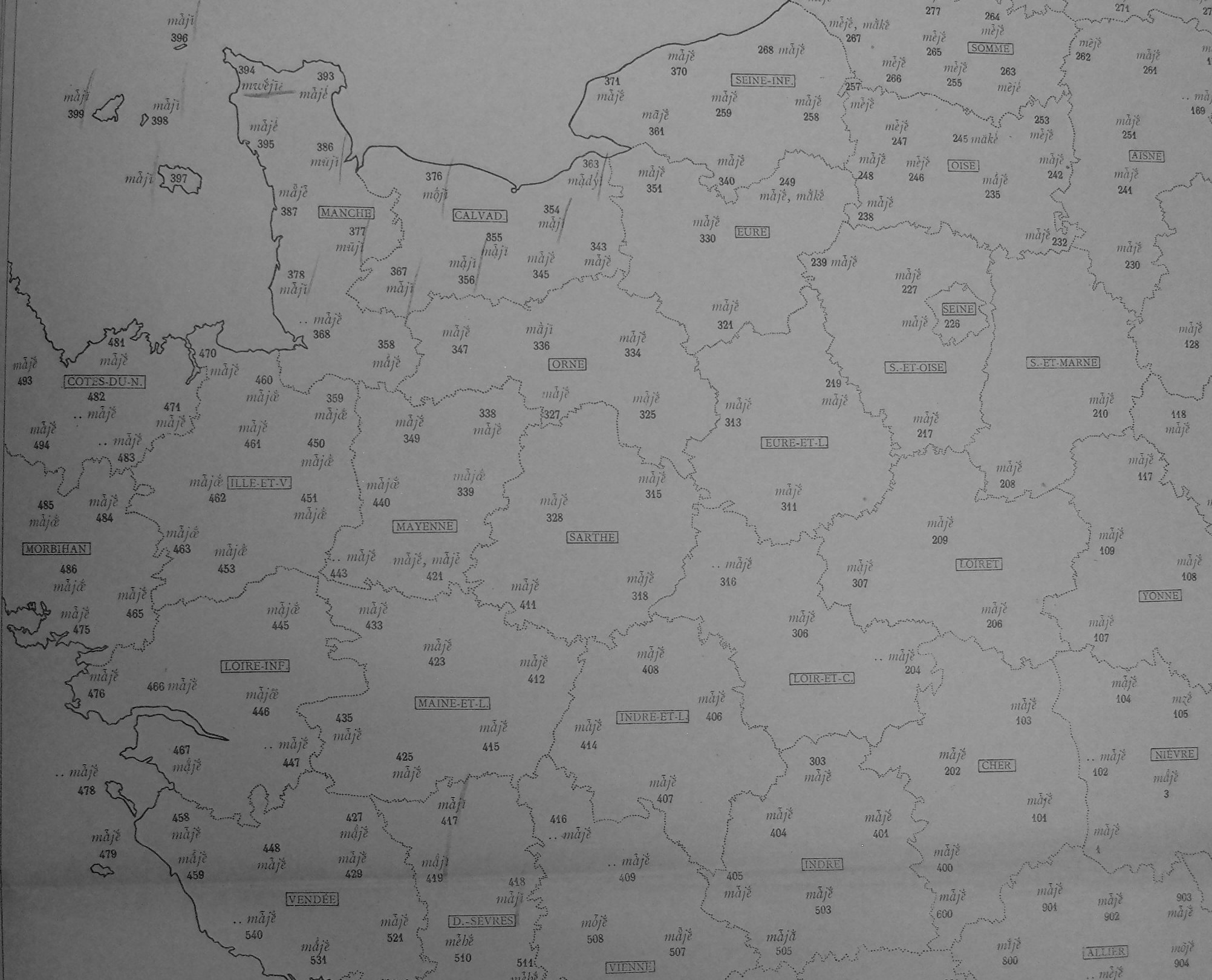 linguistique atlas of France to eat